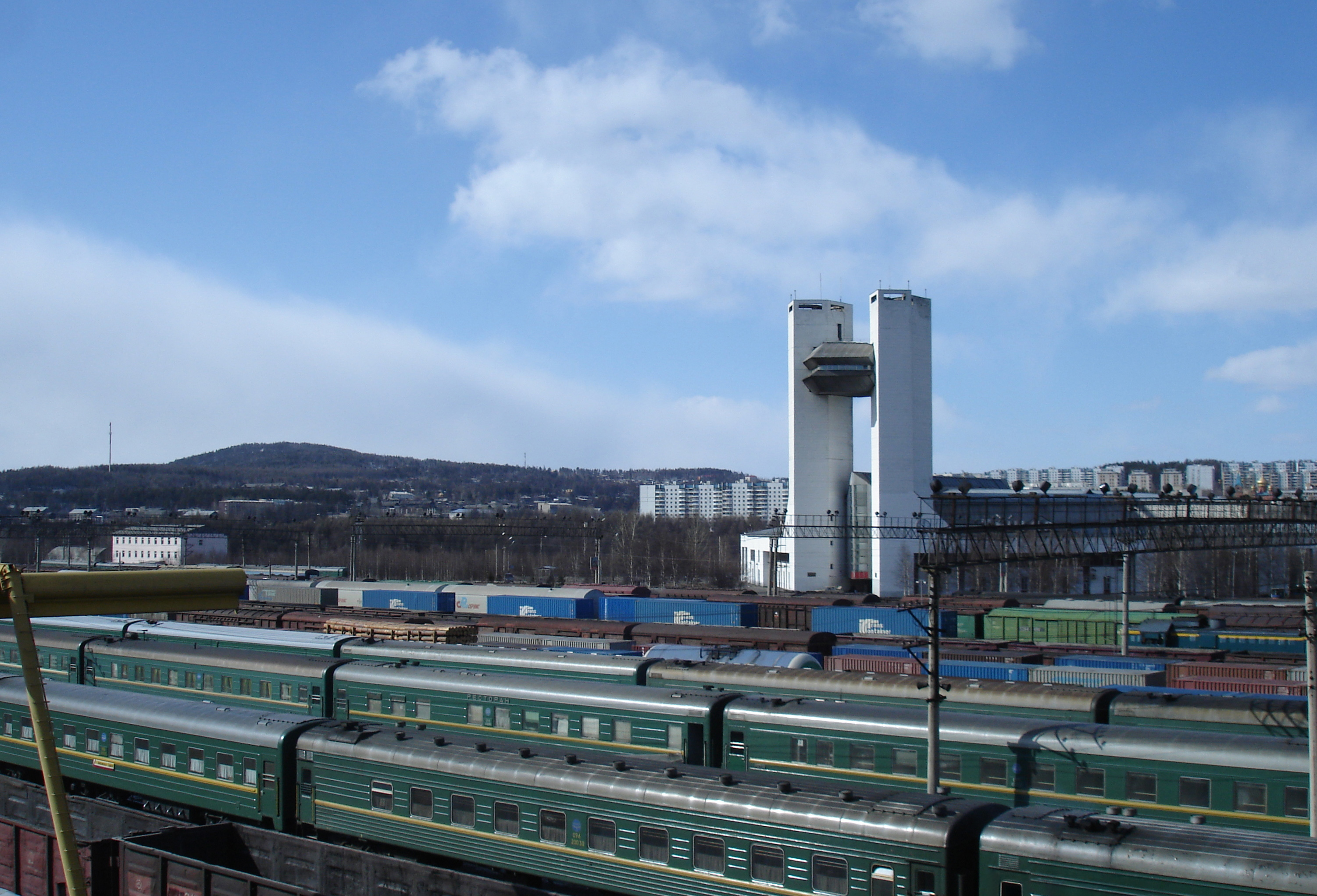 Rail terminal and station Tynda from viaduct